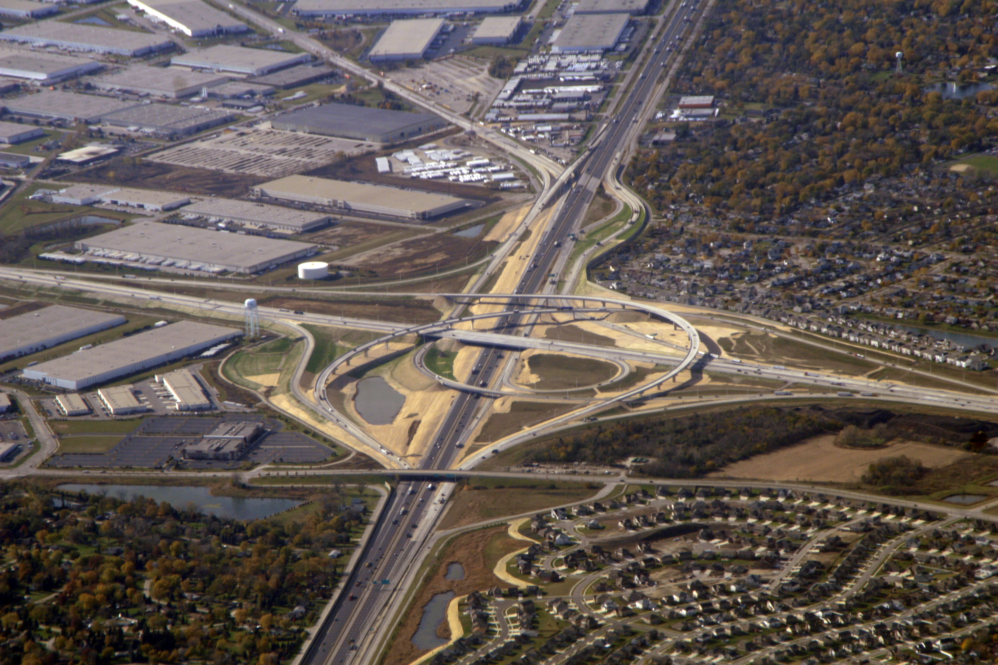 I believe this is the 55/355 intersection, where the North-South Tollway is being extended to the south (left).